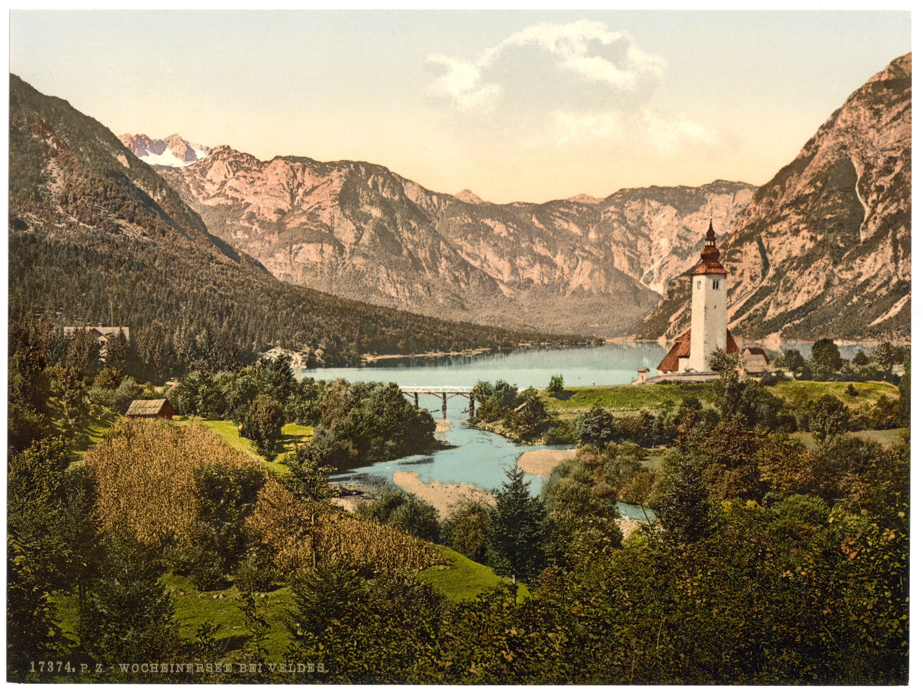 Print no. "17374".; Title from the Detroit Publishing Co., Catalogue J-foreign section, Detroit, Mich. : Detroit Publishing Company, 1905.; Forms part of: Views of the Austro-Hungarian Empire in the Photochrom print collection.